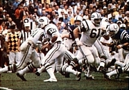 A football card from the 1986 Jeno's Pizza NFL football card stickers set of New York Jets quarterback Joe Namath running a play against the Baltimore Colts during Super Bowl III. The card is numbered #37 in the set. The back of the card reads: HELLO, WORLD, WELCOME TO THE AFL Joe Namath (12) directs the New York Jets' attack, as he and his teammates shock the the Baltimore Colts 16-7 to win Super Bowl III. Several days before the game, Namath, speaking at a dinner, said: "We're going to win Sunday, I'll guarantee you." The Colts were favored by three touchdowns to give the NFL its third consecutive victory over the AFL.